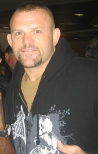 Chuck Liddell with Howard Davis Jr. in 2009